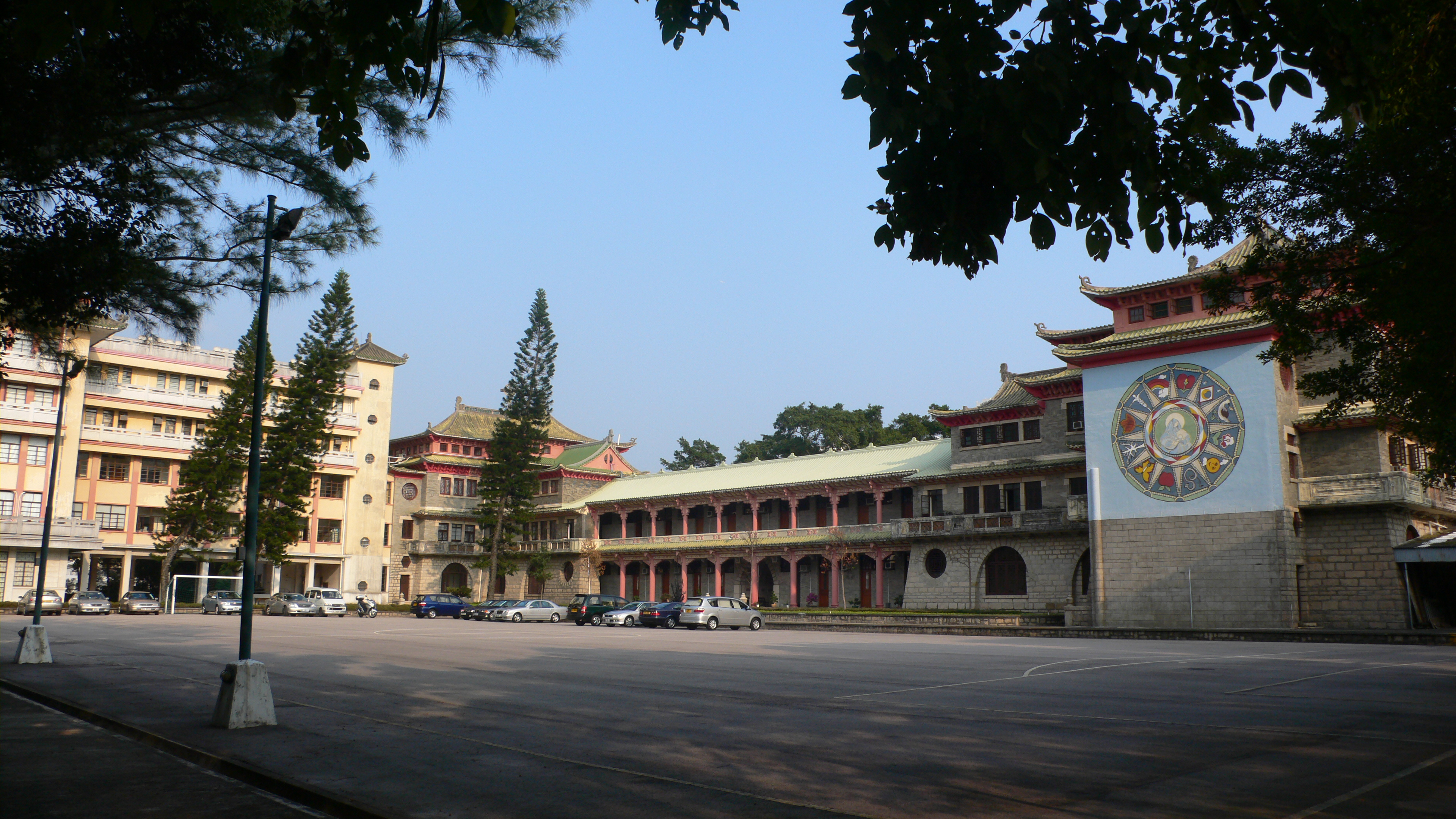 The Whole View of Holy Spirit Seminary, Hong Kong